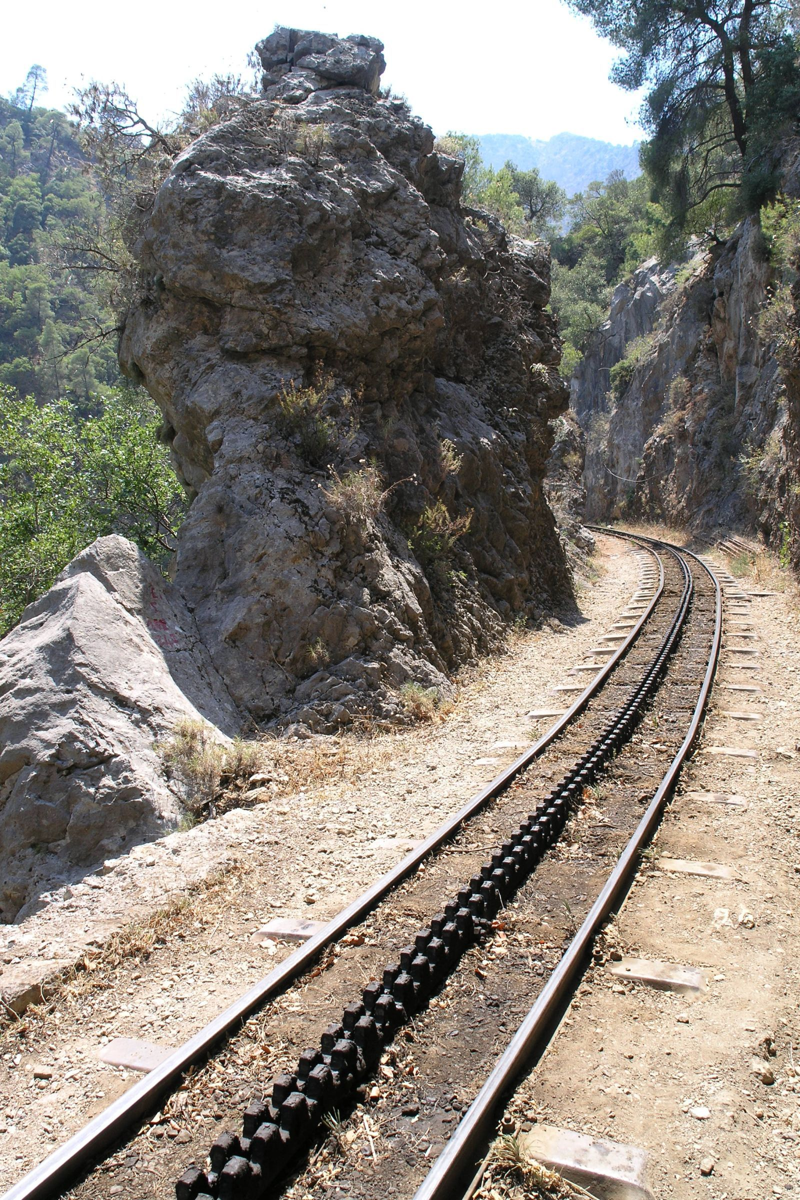 Diakofto Kalavrita Railway